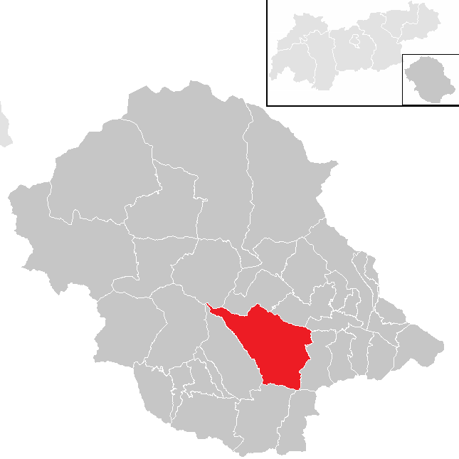 District Lienz